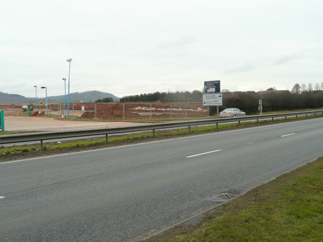 A449 Ross Spur 4 New development to the west of the existing service station on the westbound A449.